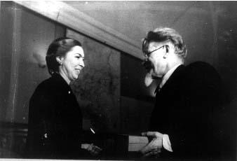 Kalinin and Almaszade.